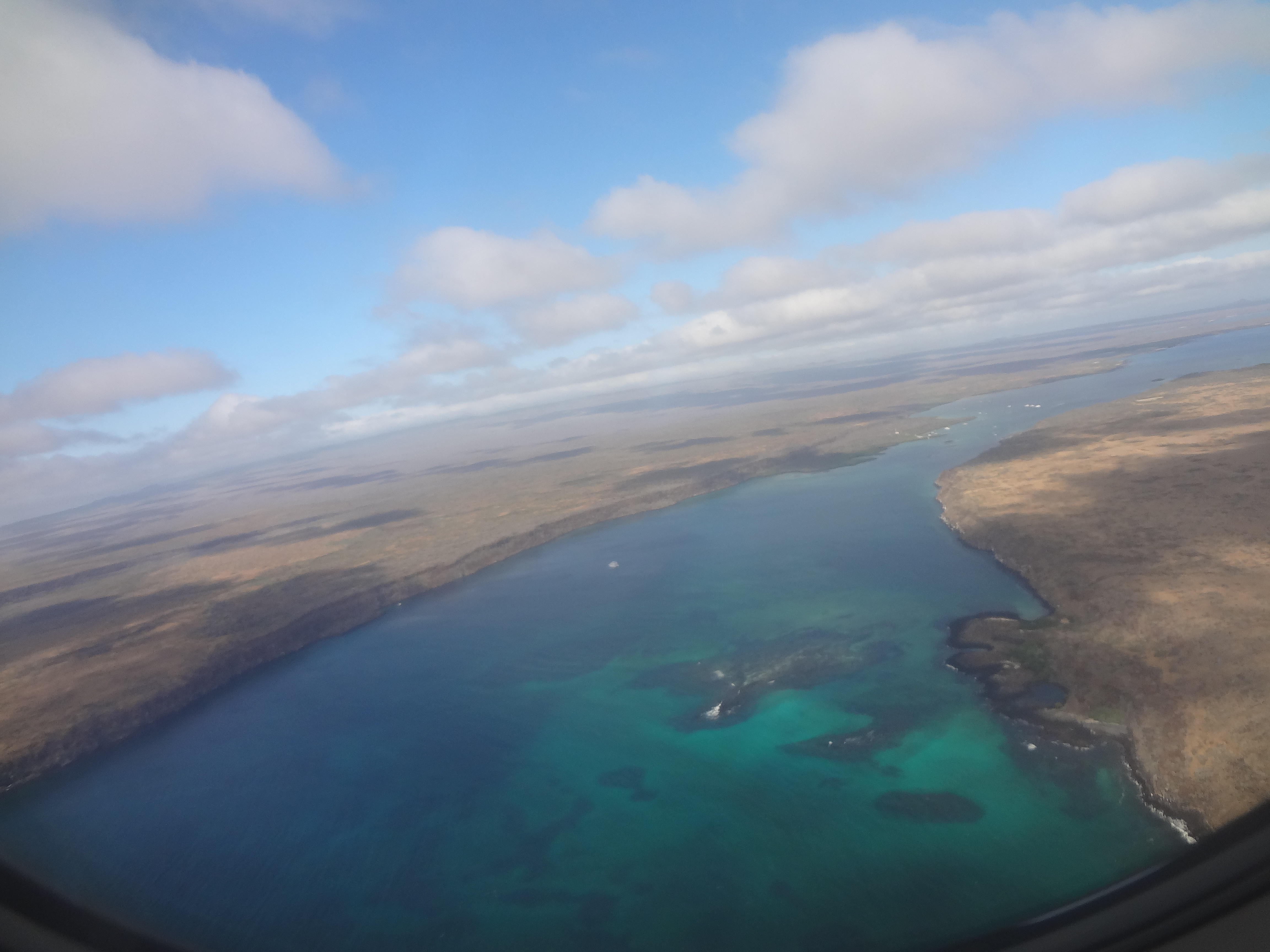 Aerial photographs by David Adam Kess The Itabaca channel between Baltra Island on the right and Santa Cruz on the left, as seen from a departing aircraft.